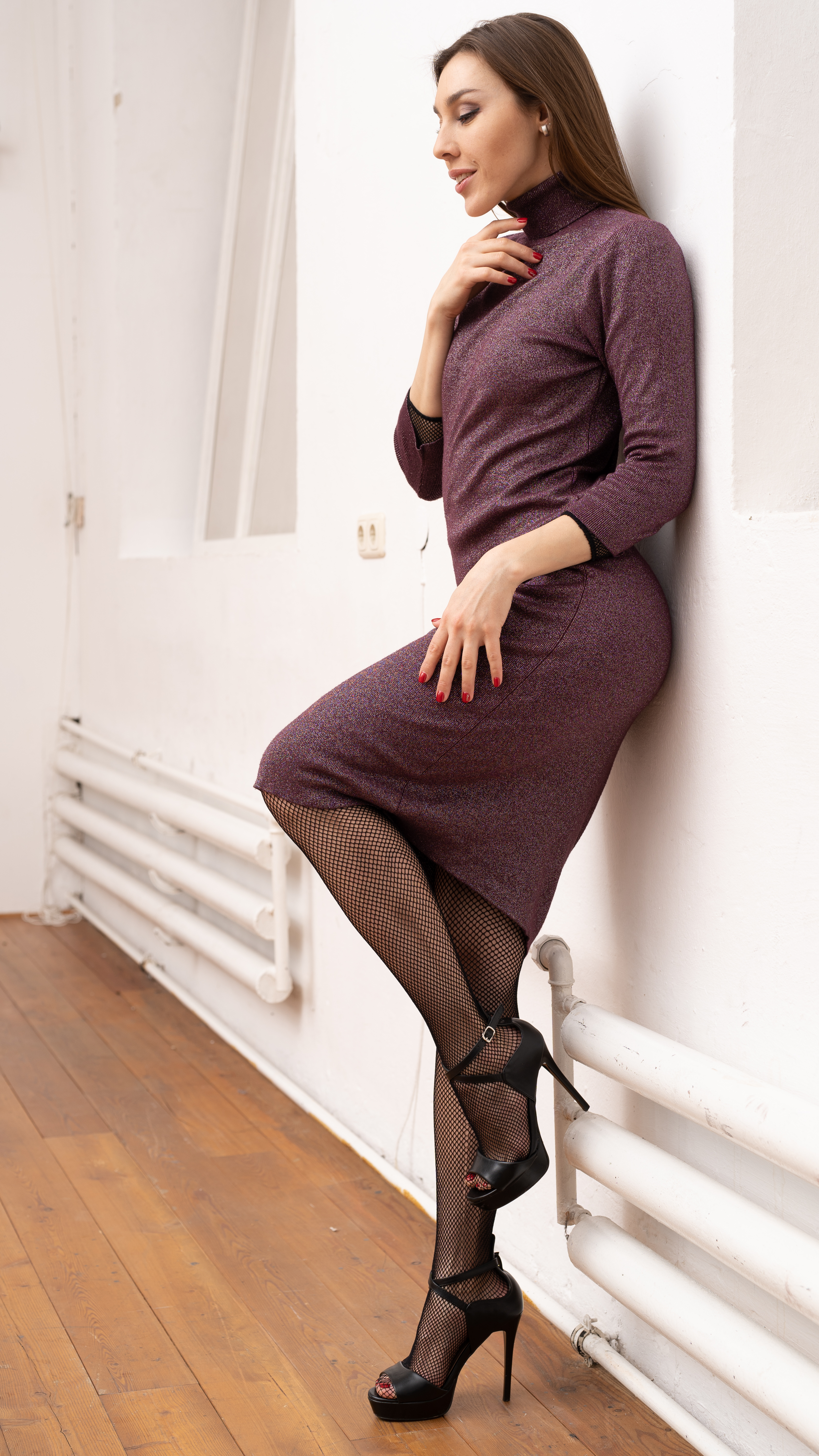 Simple sweater dress with with turtleneck worn over a fishnet bodystocking.